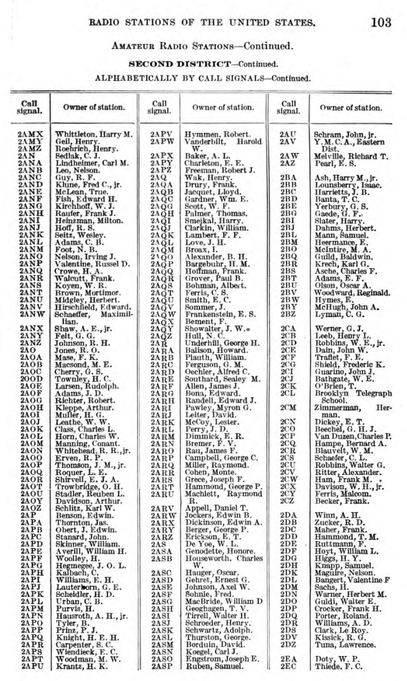 Commercial and government radio stations of the United States. GPO, Washington DC 1919, page 103.